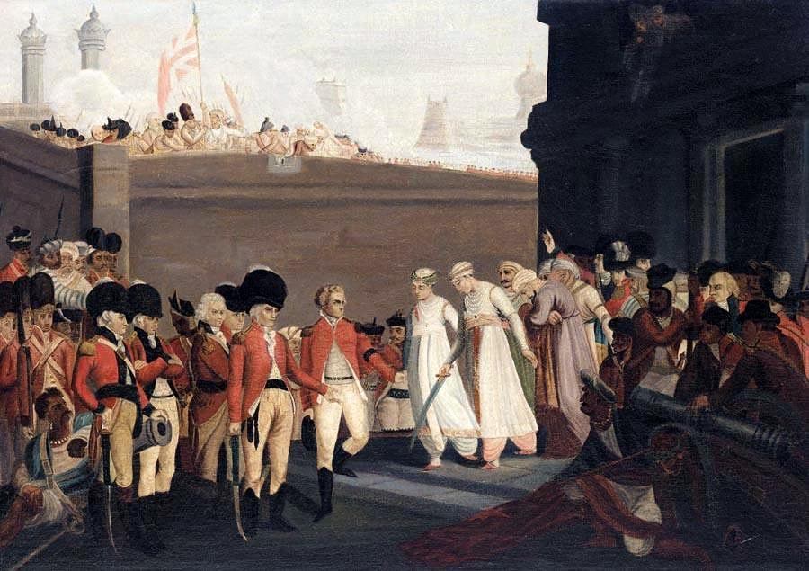 "The Surrender of Two Sons of Tippoo Sultaun," a copy by a Persian artist of a painting by Henry Singleton (downloaded May 2005) " THE SURRENDER OF TIPU'S TWO SONS AS HOSTAGES AFTER THE PAINTING BY HENRY SINGLETON, QAJAR, PERSIA, 19TH CENTURY. This intriguing painting by a Qajar artist after Henry Singleton's painting of The Surrender of the Two Sons of Tippoo Sultaun to Sir David Baird is similar in scale and execution to the previous lot in this sale. It would be possible to suggest that the court artist 'Abdullah may have painted all four paintings from this series by Henry Singleton, whilst only these two remain. Henry Singleton was one of the artists still resident in Britain who benefitted from the British presence in India. Although his lack of knowledge regarding local dress demonstrates his ignorance in matters Indian, his paintings were highly acclaimed by the contemporary London art scene. His painting of The Hostages Presented by the Vackeel to Lord Cornwallis at an exhibition of the Royal Academy in 1793 brought him the following praise from an art critic, "It has in it a great deal of natural character. The timid appearance of the boys, with the cheering and the affectionate presentation of the hand in Lord Cornwallis, are simply told. The various passions that may be supposed to mark such a scene are delineated without any shew of effort. The whole composition does him credit." (Archer 1979, pl.335, p.422-424)."